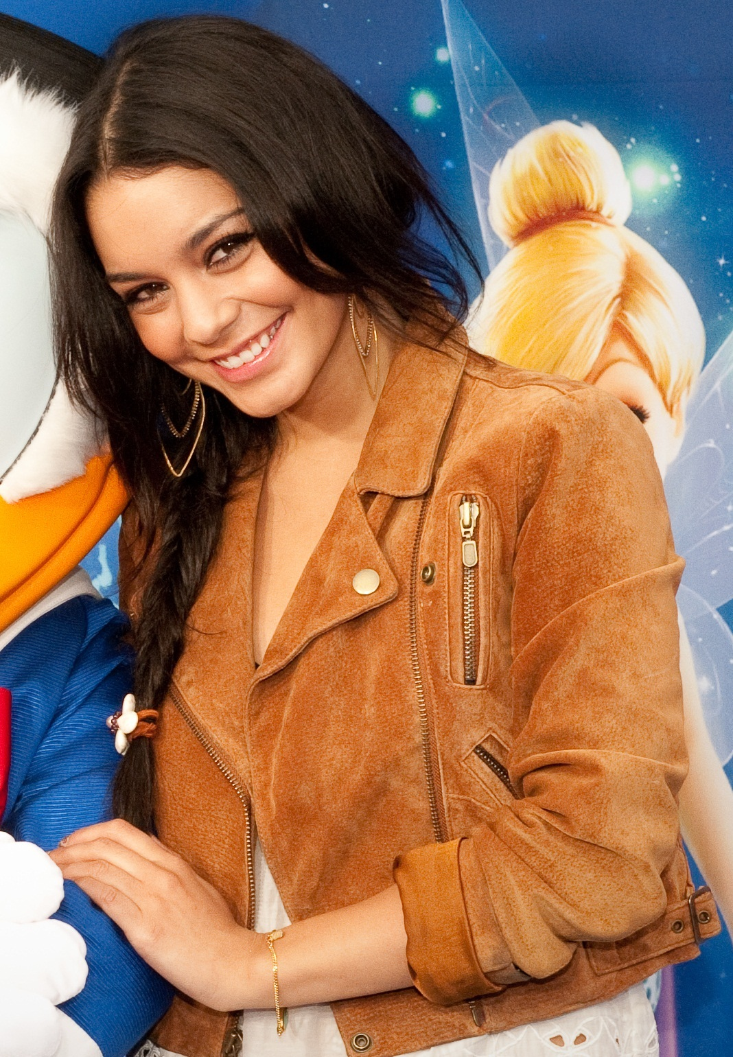 Vanessa Hudgens at the World of Color Premiere Disney California Adventure